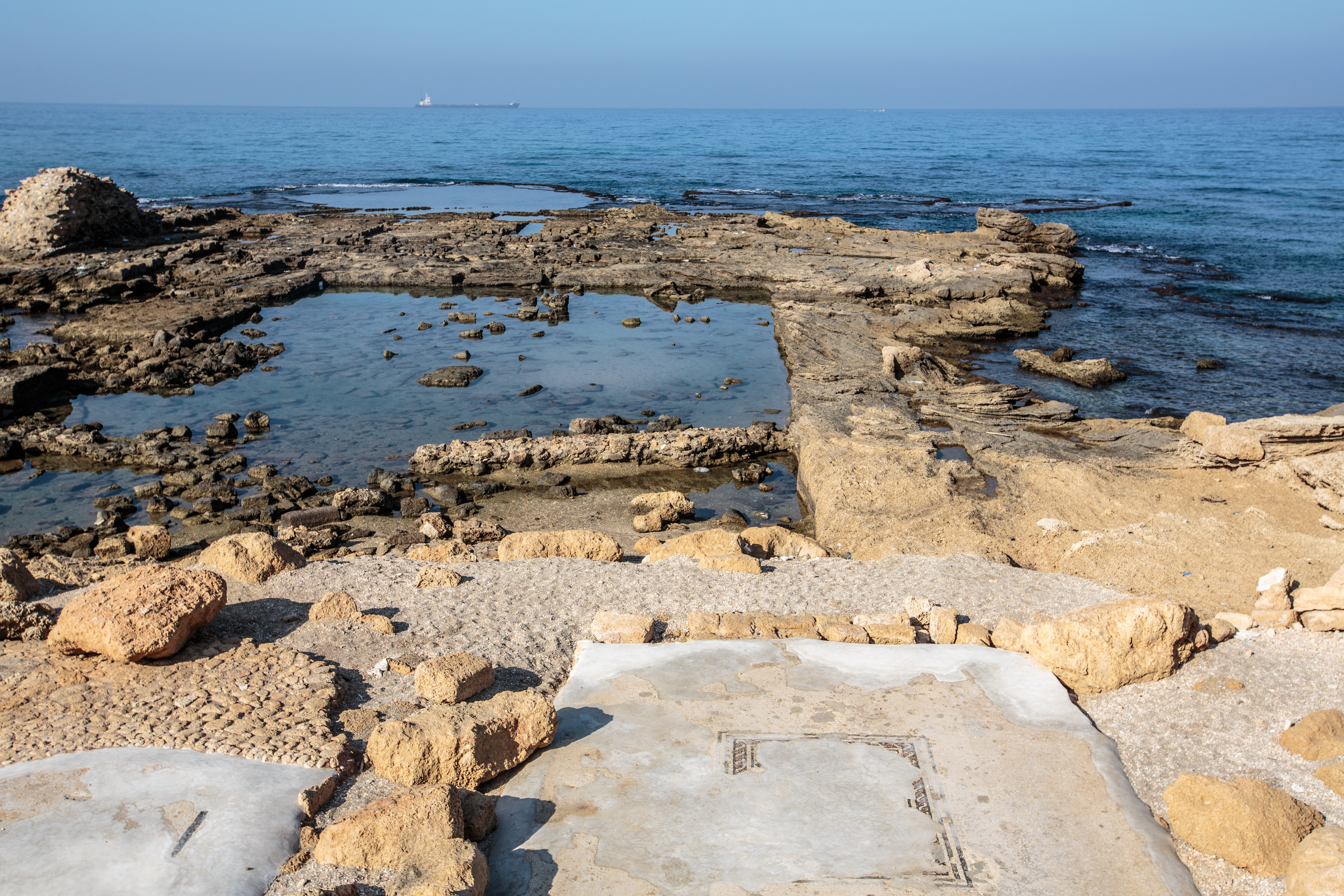 Ancient Roman beach swim pool in Caesarea, Israel.